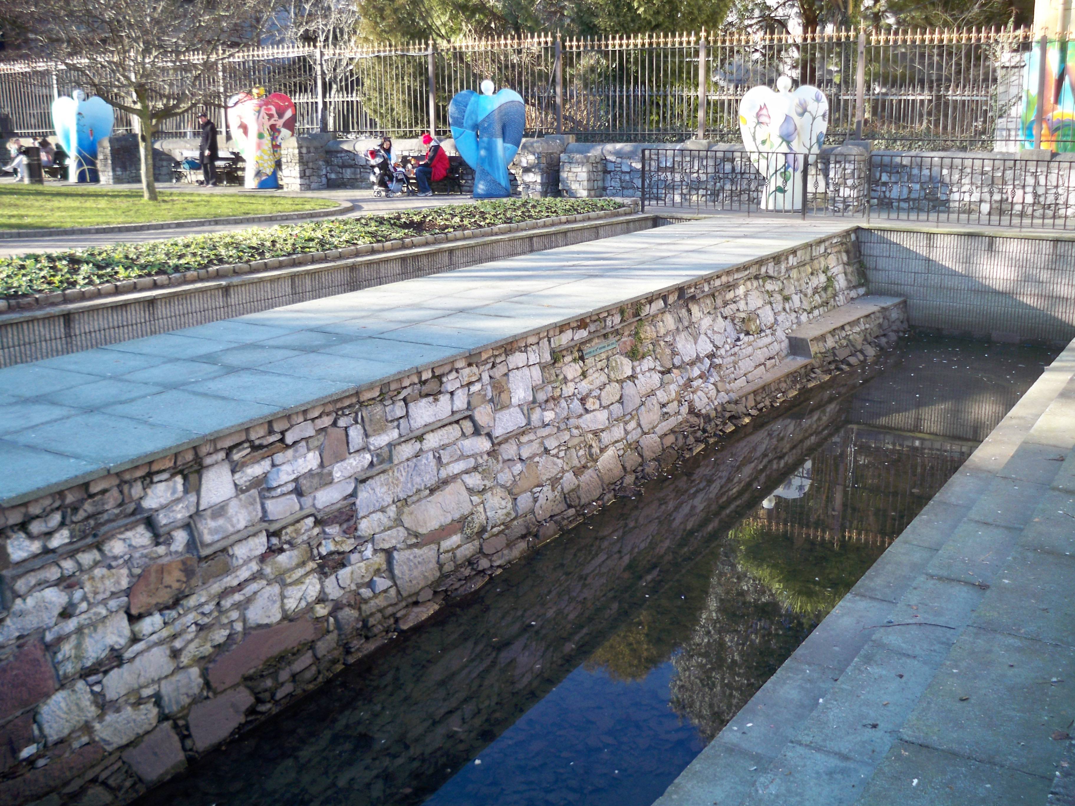 Cork City Town Walls